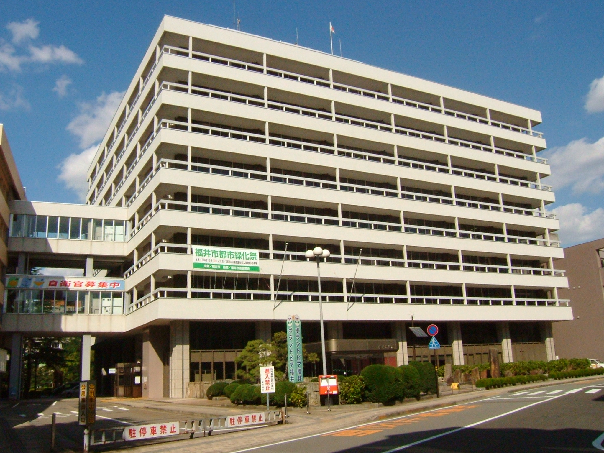 Fukui City Hall(Fukui City, Fukui prefecture, Japan)